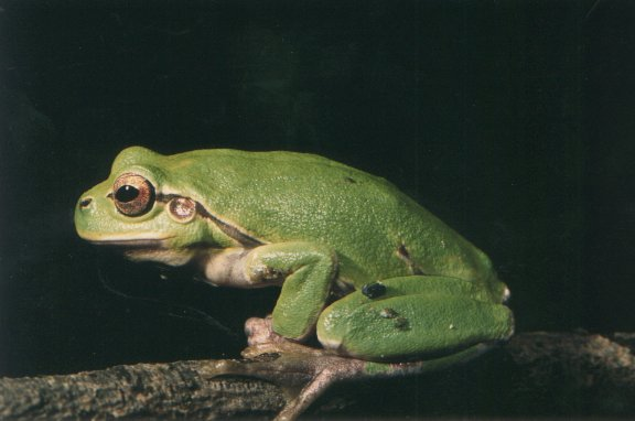 Hyla intermedia